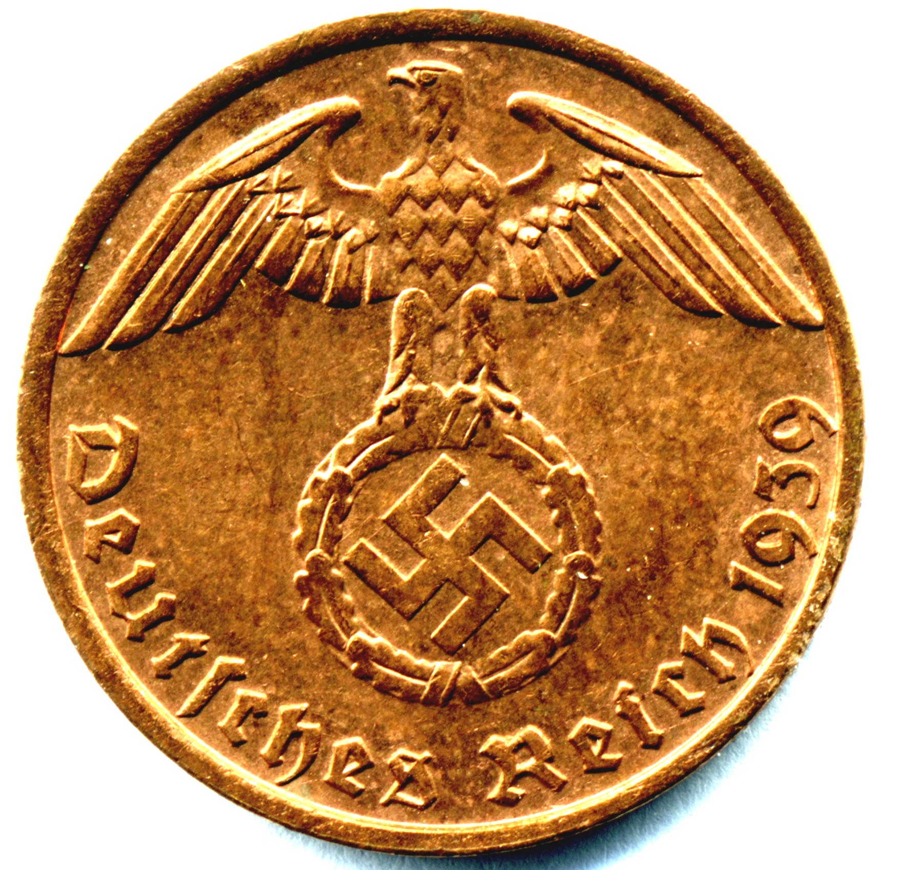 Nazi bronze 1 Reichspfening coin, Obverse with Eagle/ Swasticka